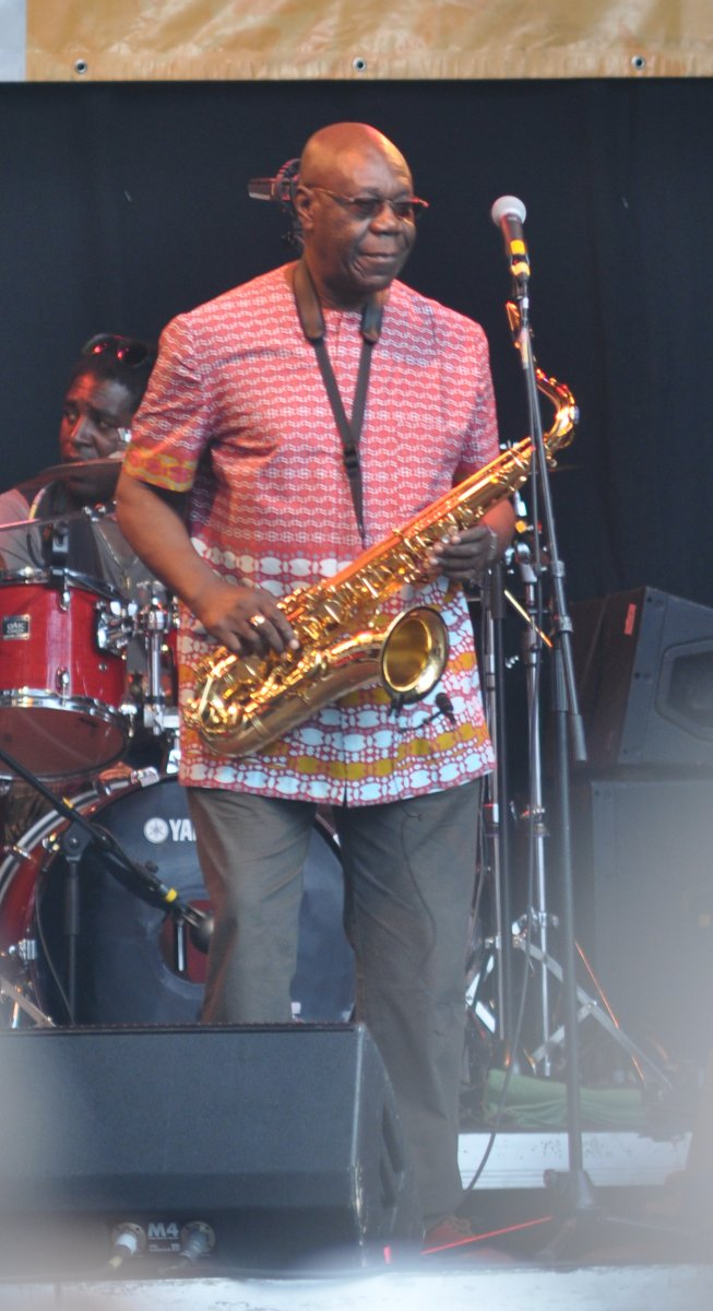 Manu Dibango at the Sommerfestival der Kulturen Stuttgart - 17.07.2013